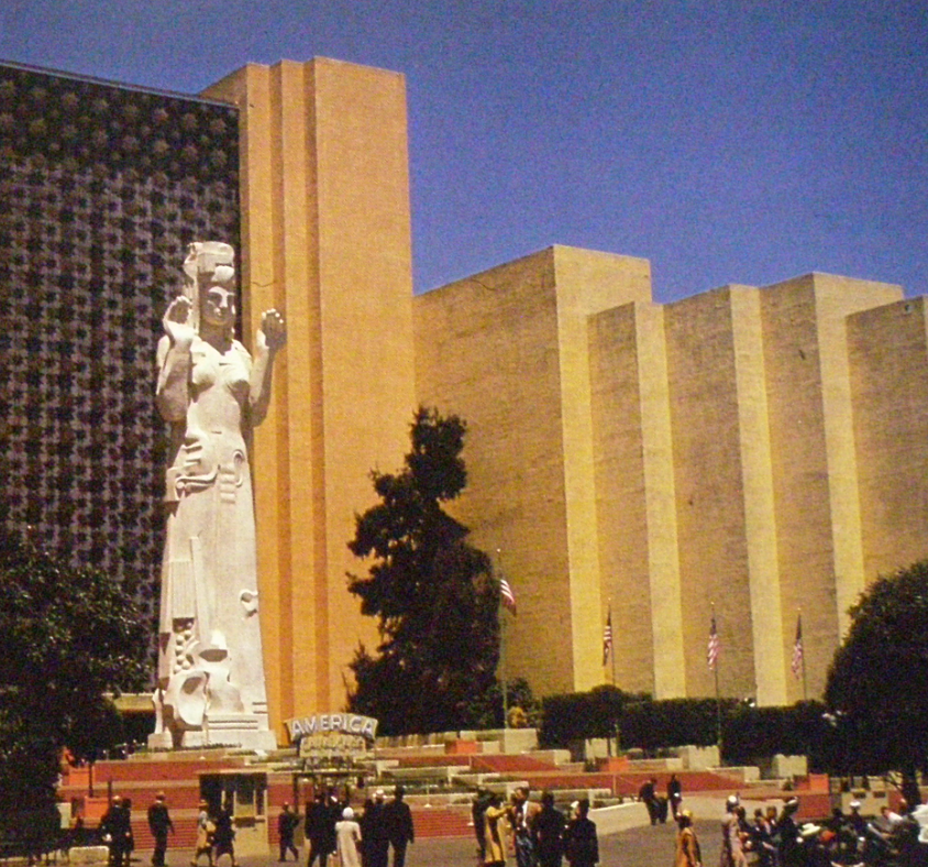 picture of the pacifica statue from 1939